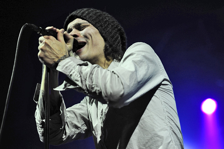 Soundwave Festival 2010